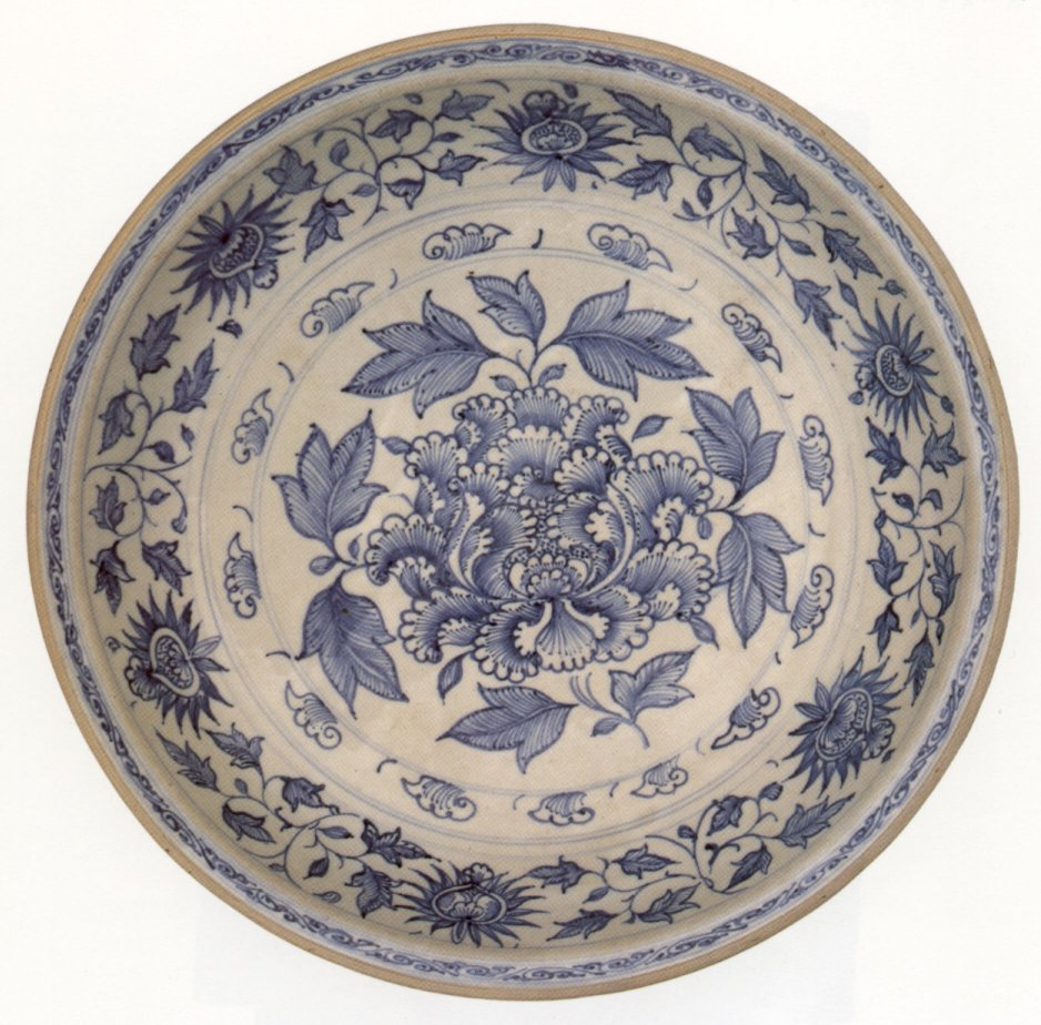 Vietnamese dish, Annam, 15th century, stoneware with underglazed blue design, Honolulu Academy of Arts